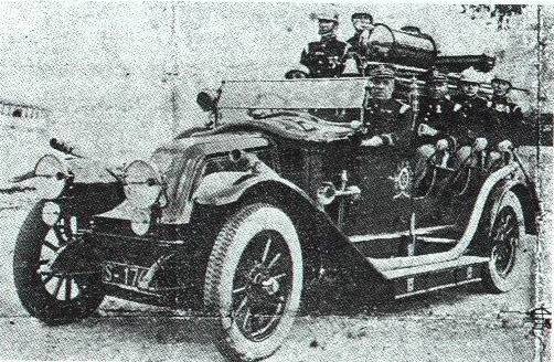 AHBVPA-MeioHistorico5